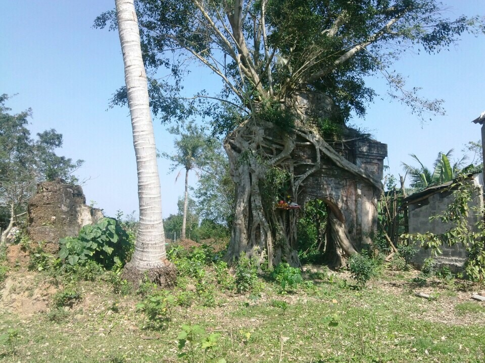 Hoang Phuc Pagoda in Le Thuy District, Quang Binh Province. Vietnam